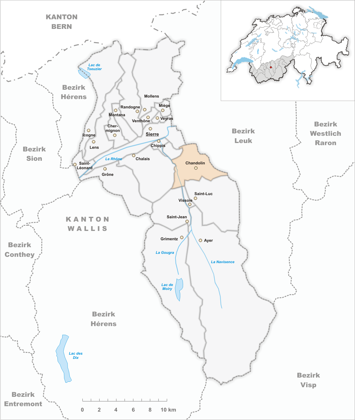 Municipality Chandolin